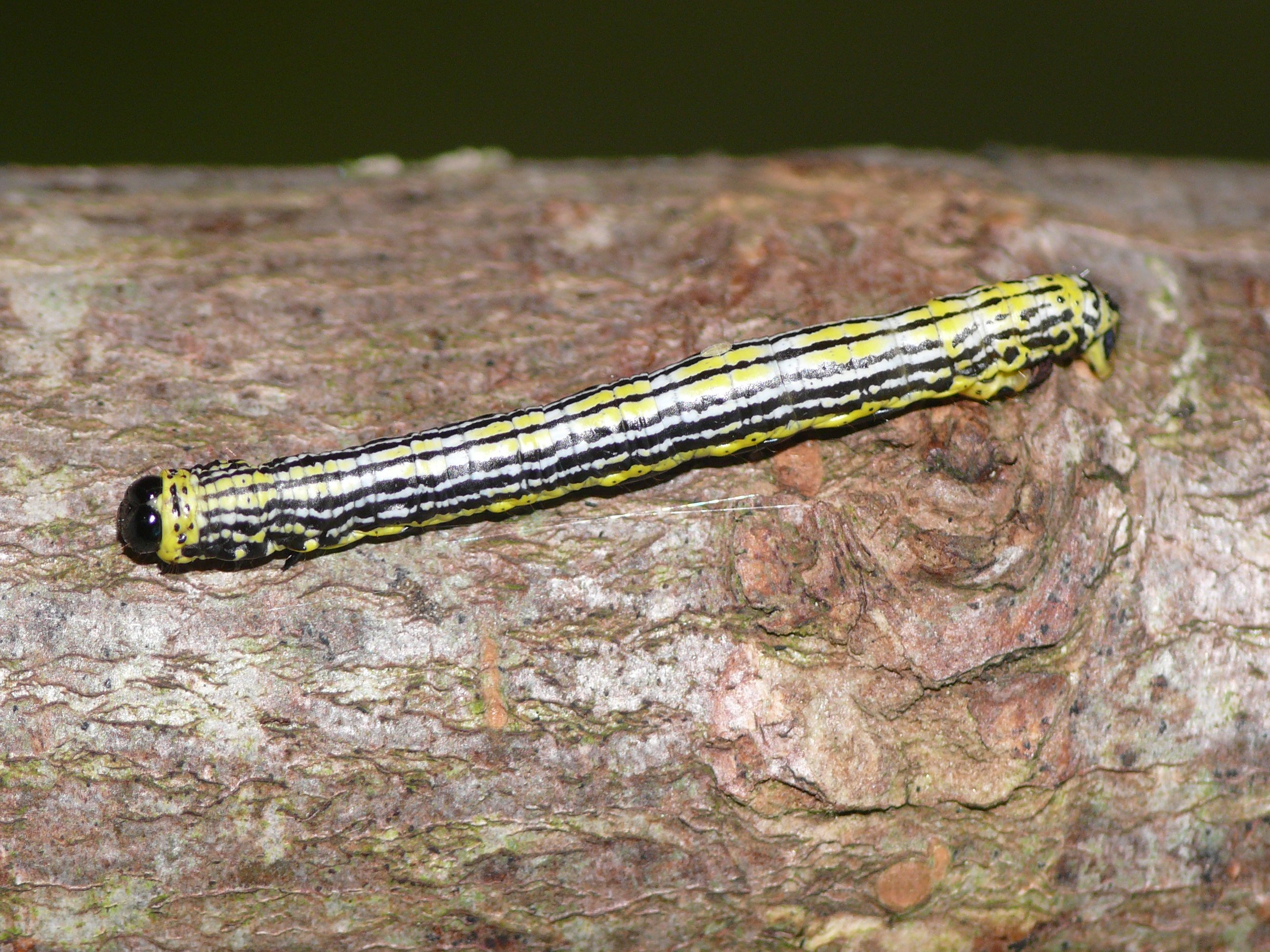 Caterpillar of Clouded Magpie (Abraxas sylvata) on elm tree, Pähler Schlucht, Bavaria, Germany